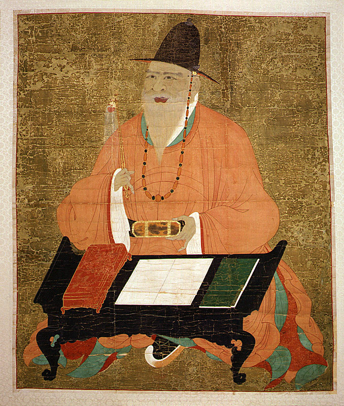 Portraits for Yi Hyeon-bo